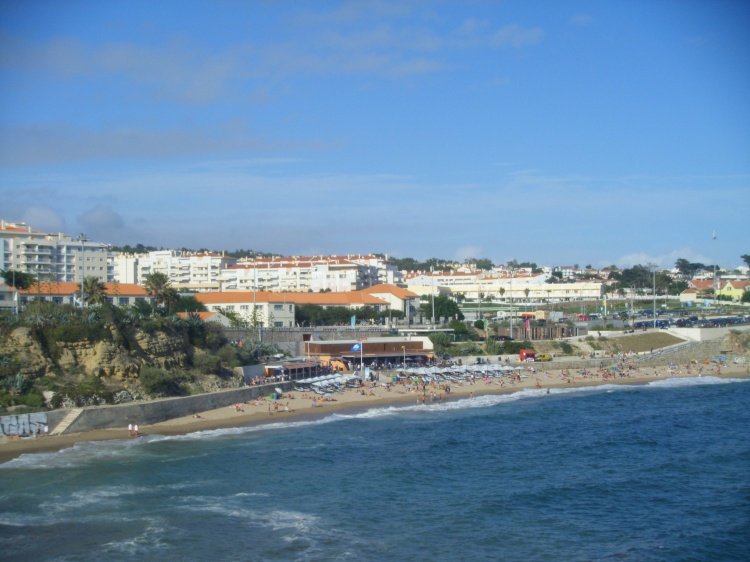 The beach at S. Pedro do Estoril - Cascais - Portugal